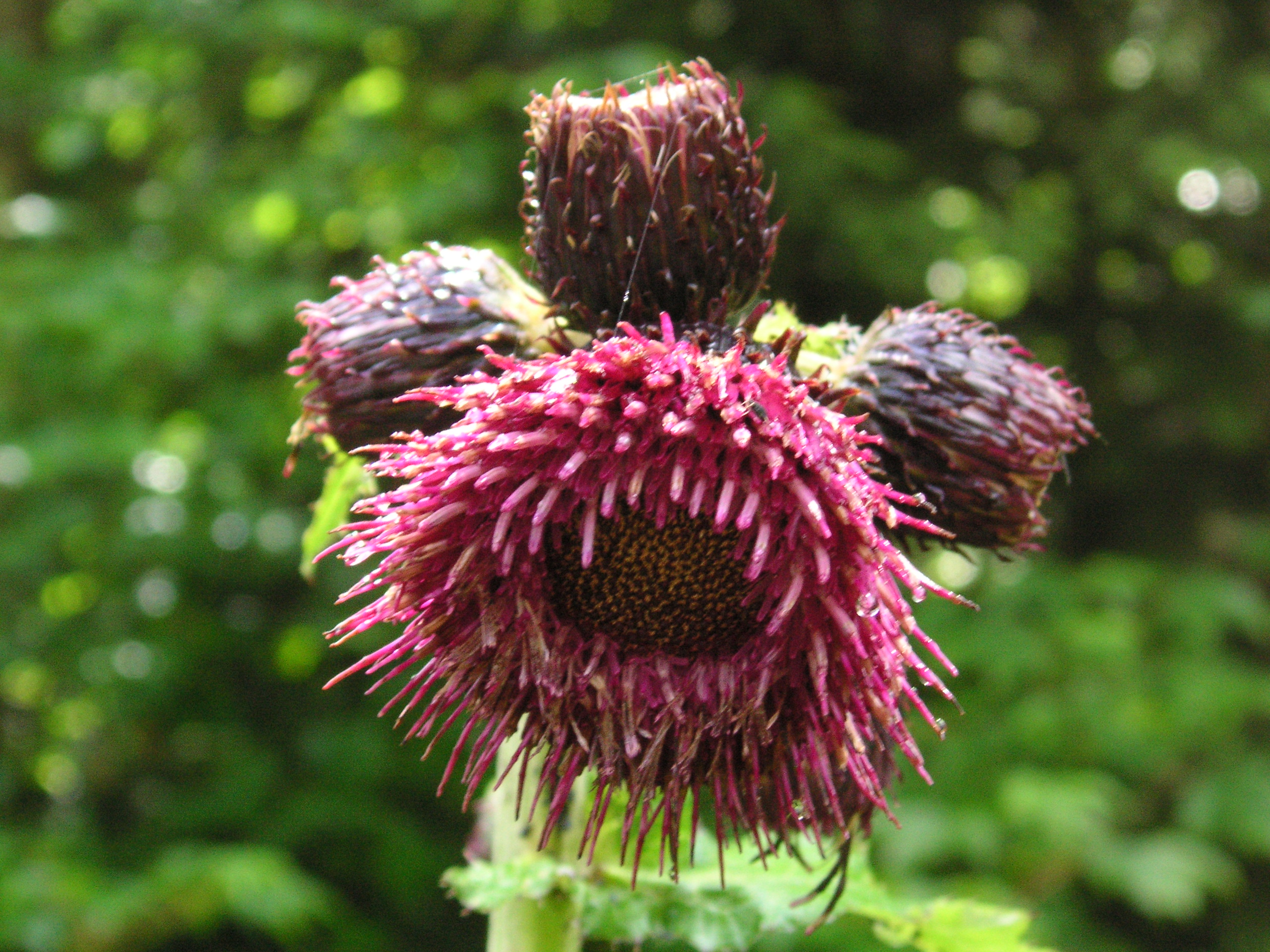 Cirsium waldsteinii